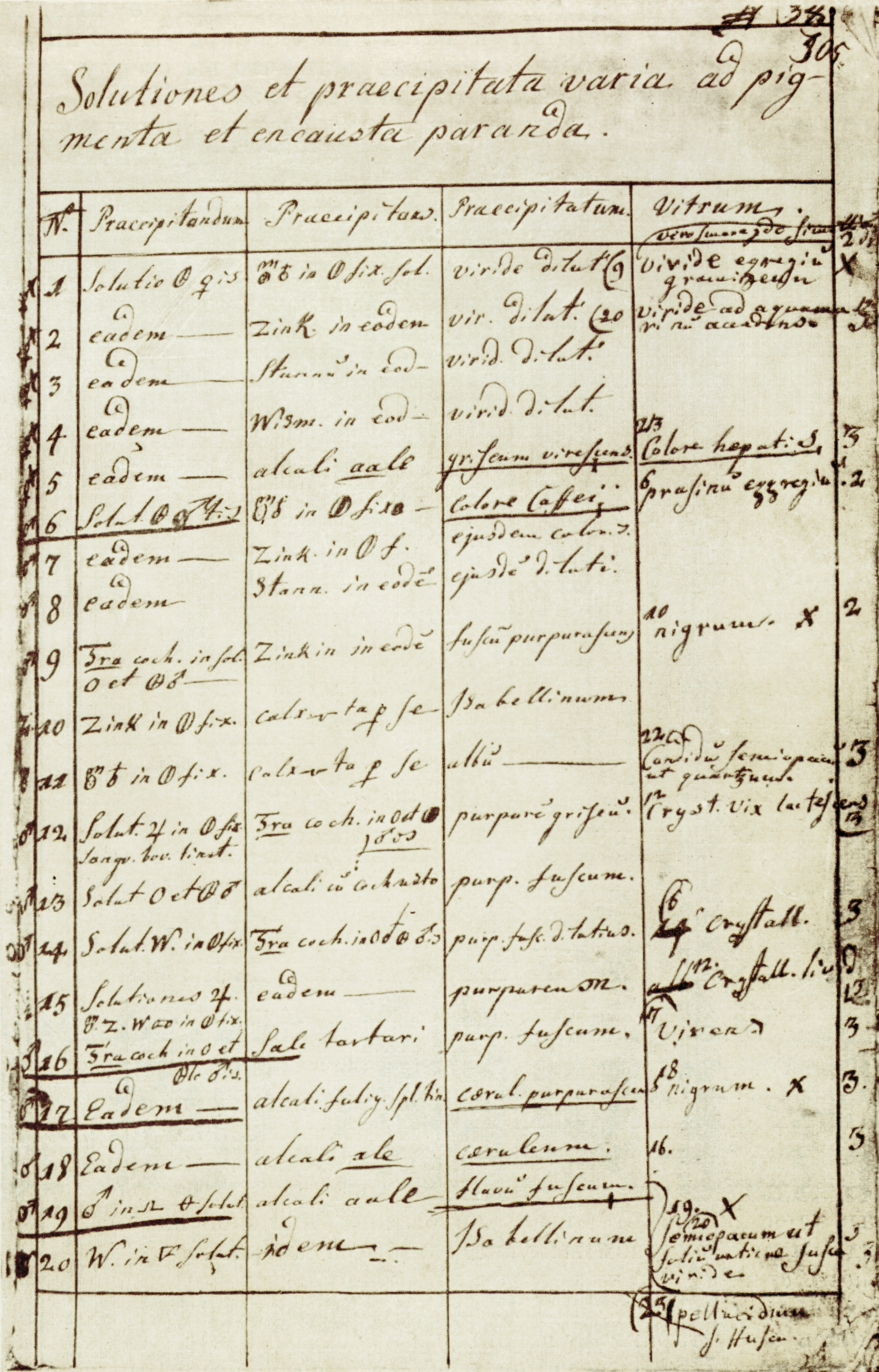 Protocol of M. Lomonosov's Laboratory Supervision.1747